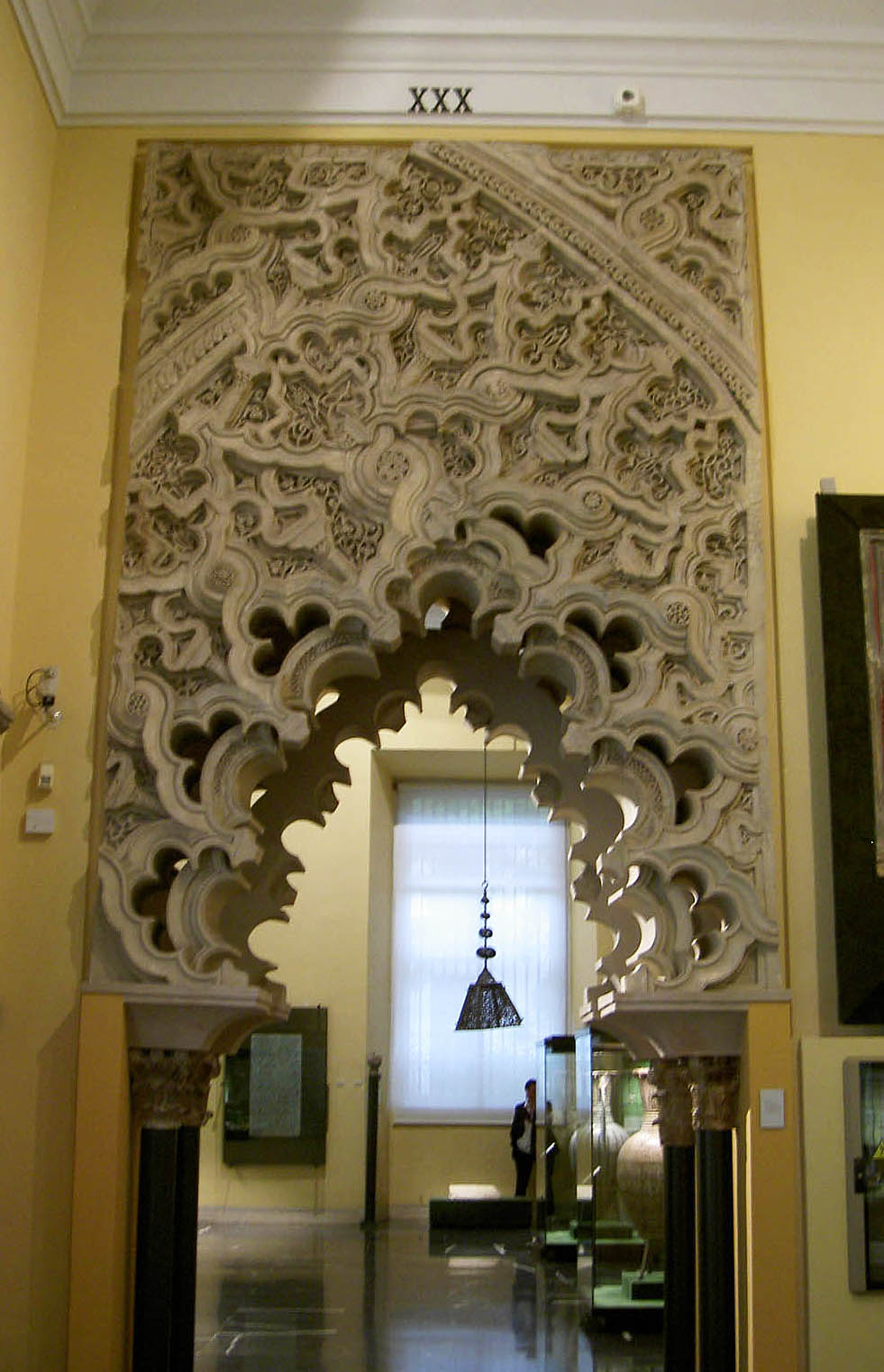 Arc from the central courtyard of the Aljafería Palace in Zaragoza (Aragon, Spain).